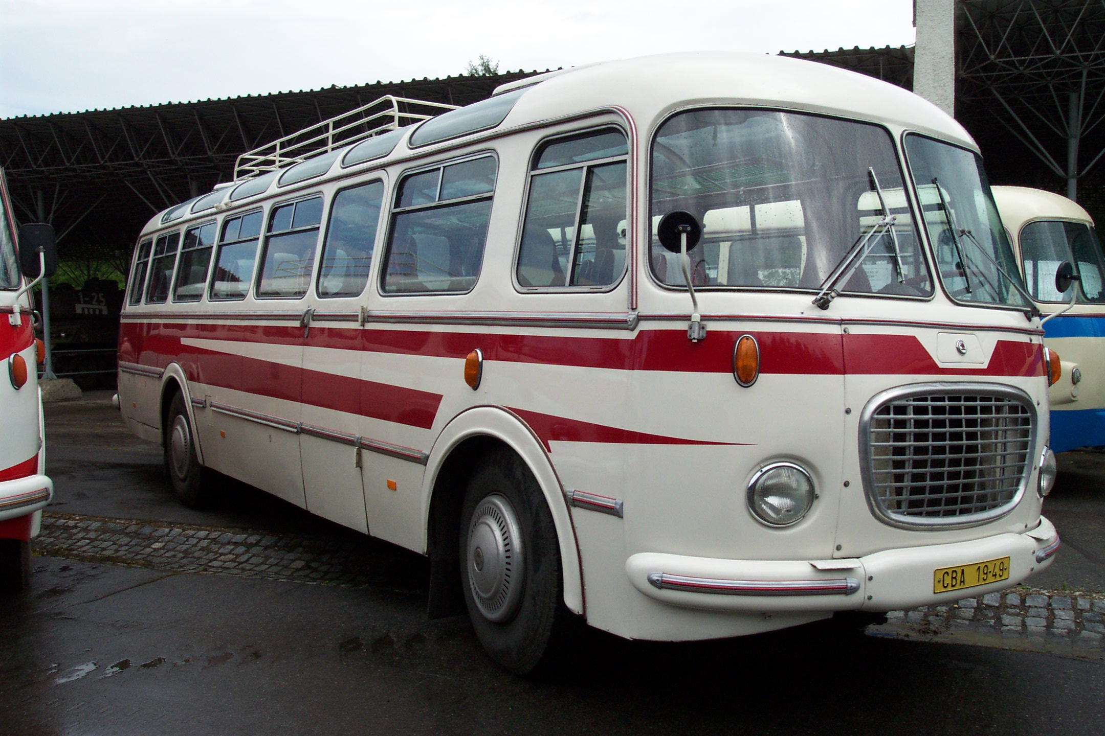 1965 Škoda RTO bus in VTM Lešany museum